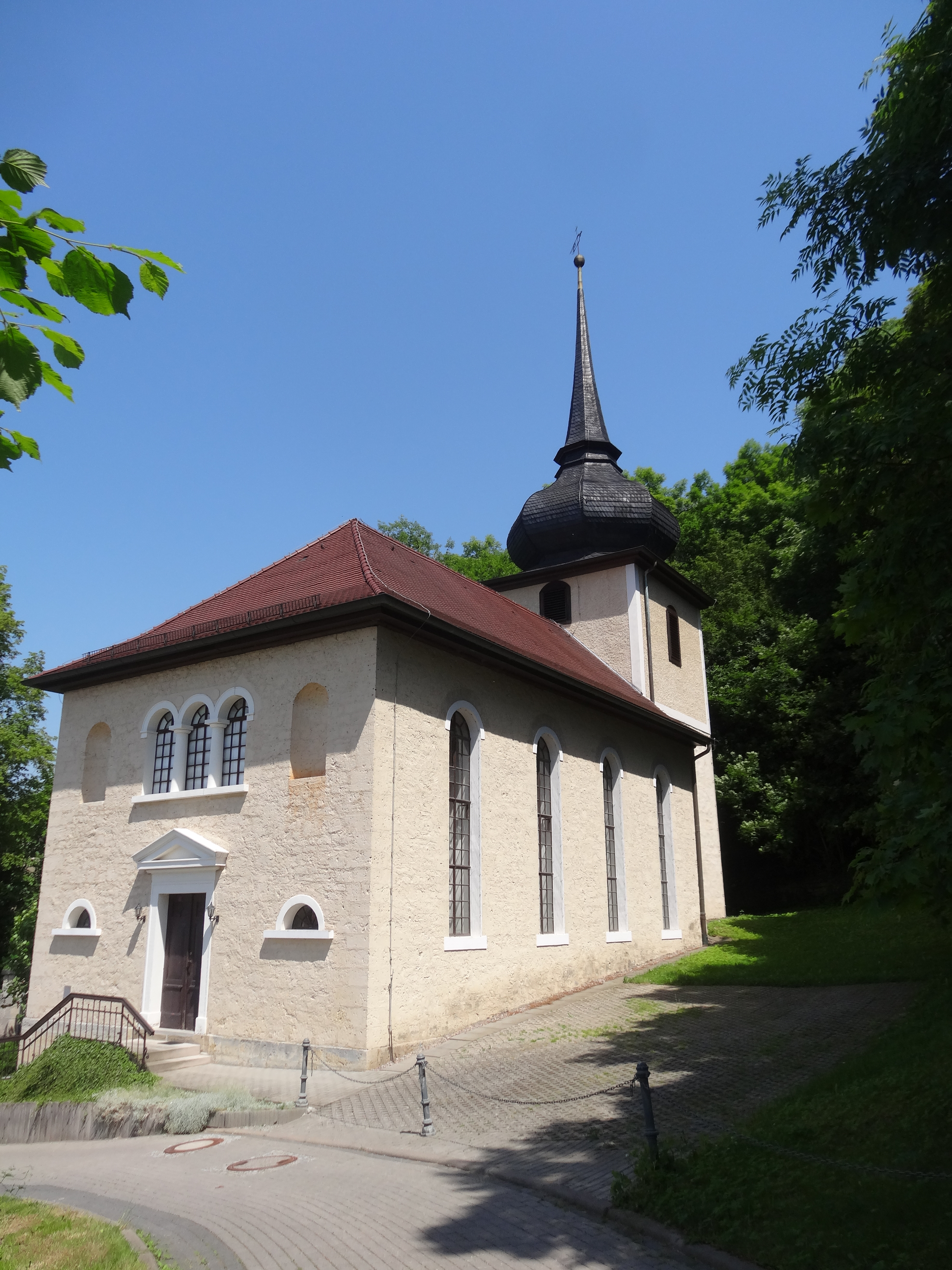 Church of Dorfsulza, Bad Sulza, Thuringia, Germany